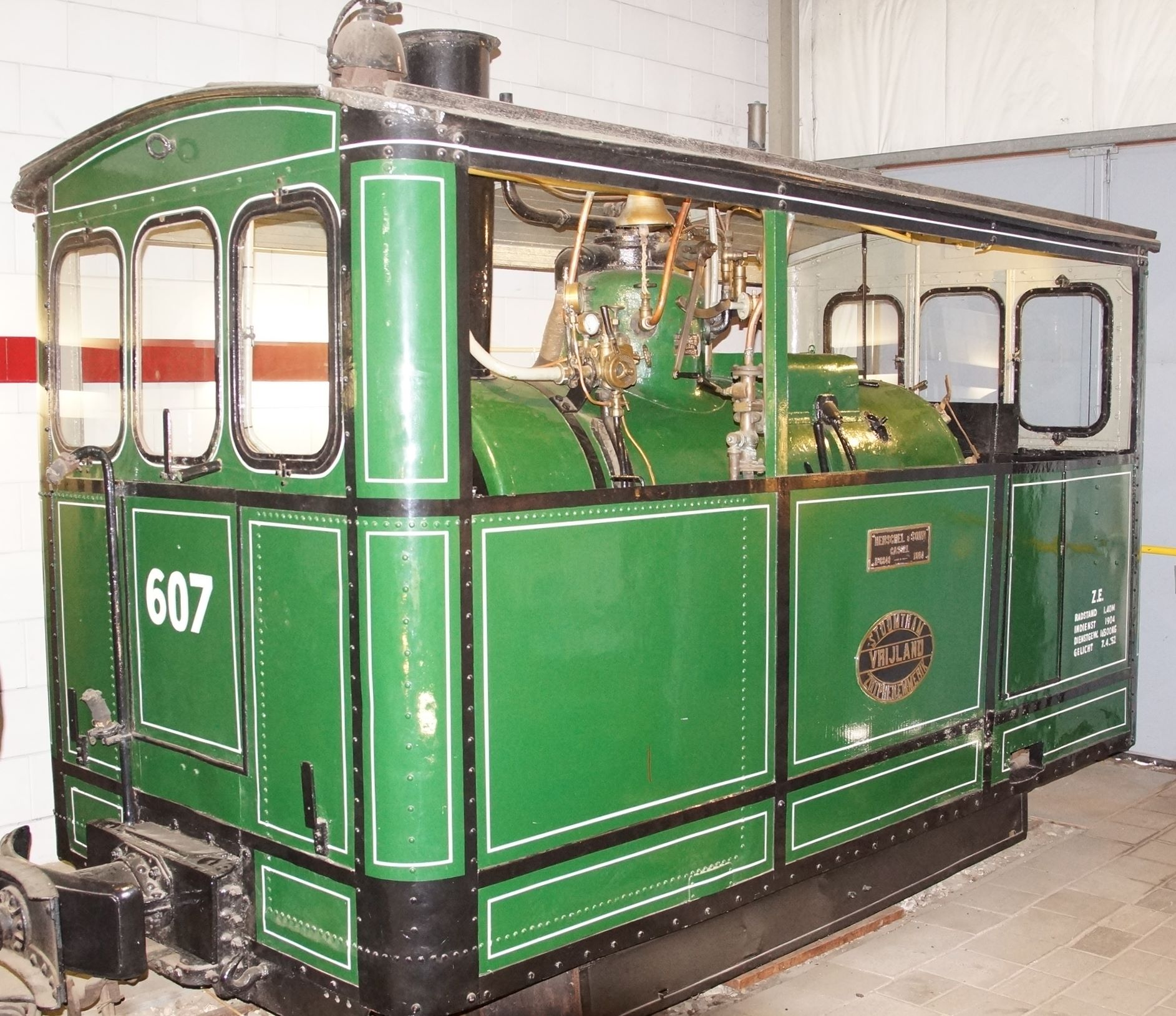 Henschel & Sohn tram in the narrow gauge (750 mm[1]) railway museum in Valkenburg (NL)